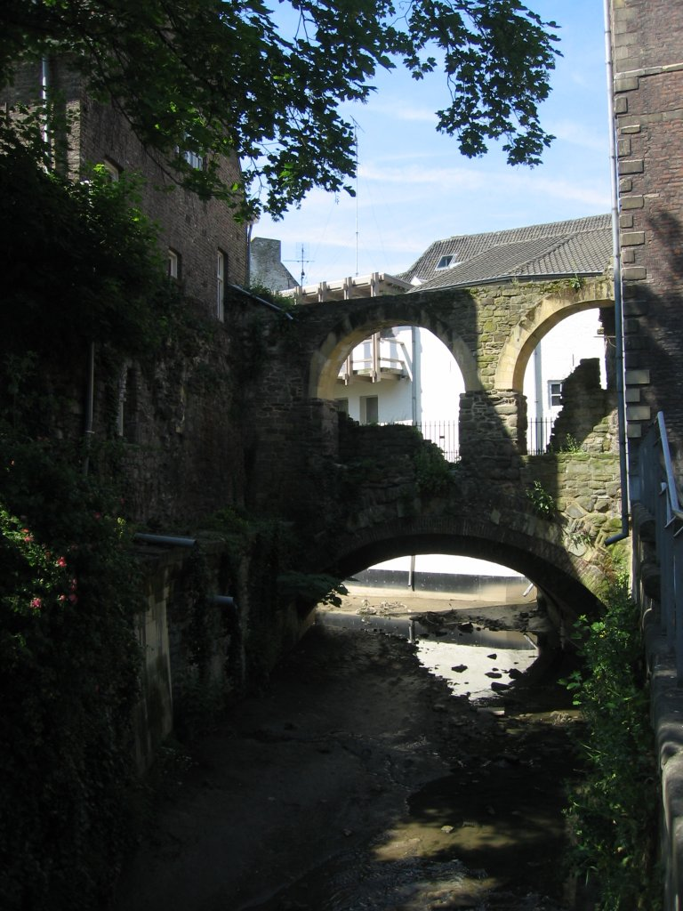 River Jeker in Maastricht.